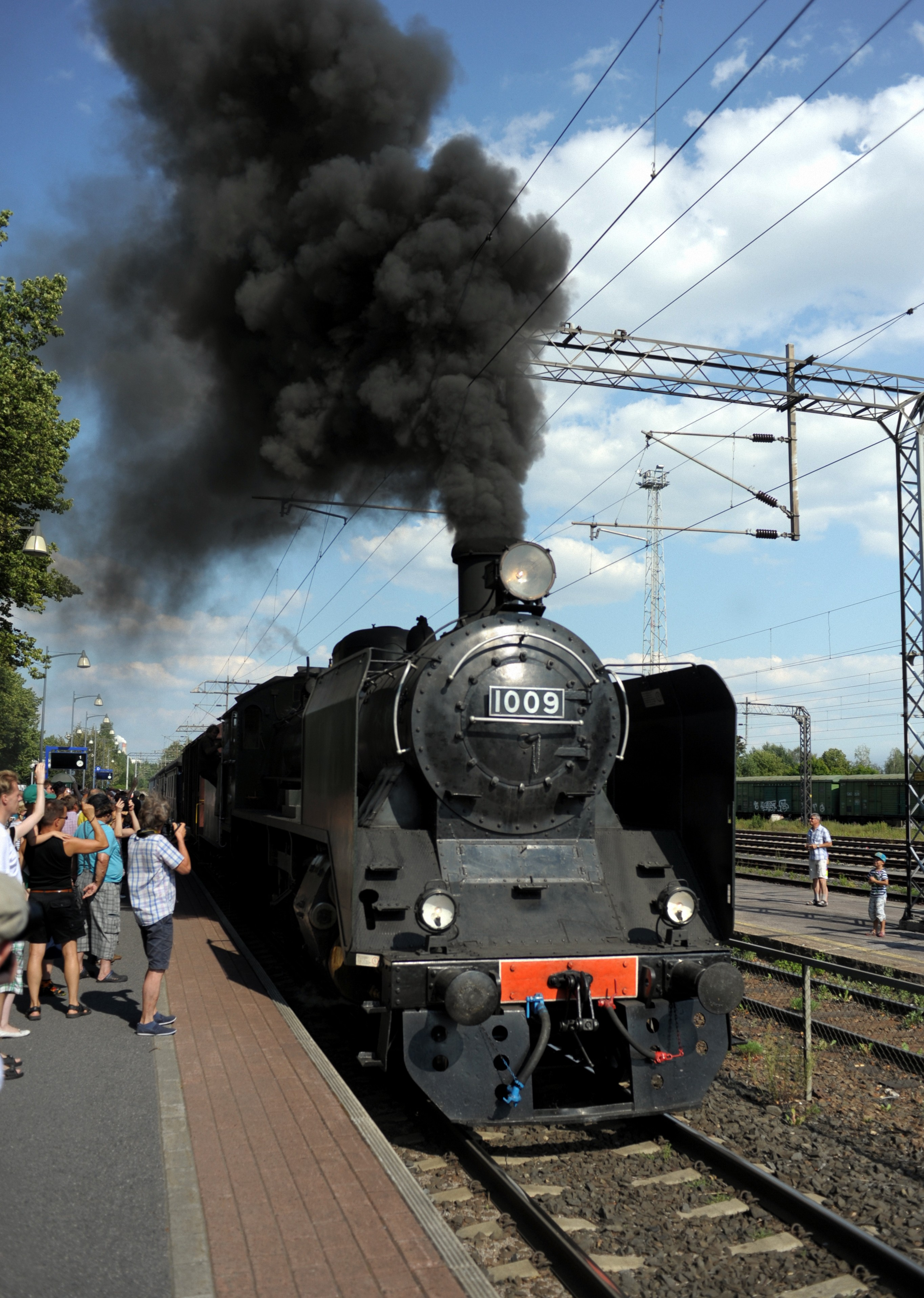 Lokomo HR1 in Lappeenranta August 6th 2014